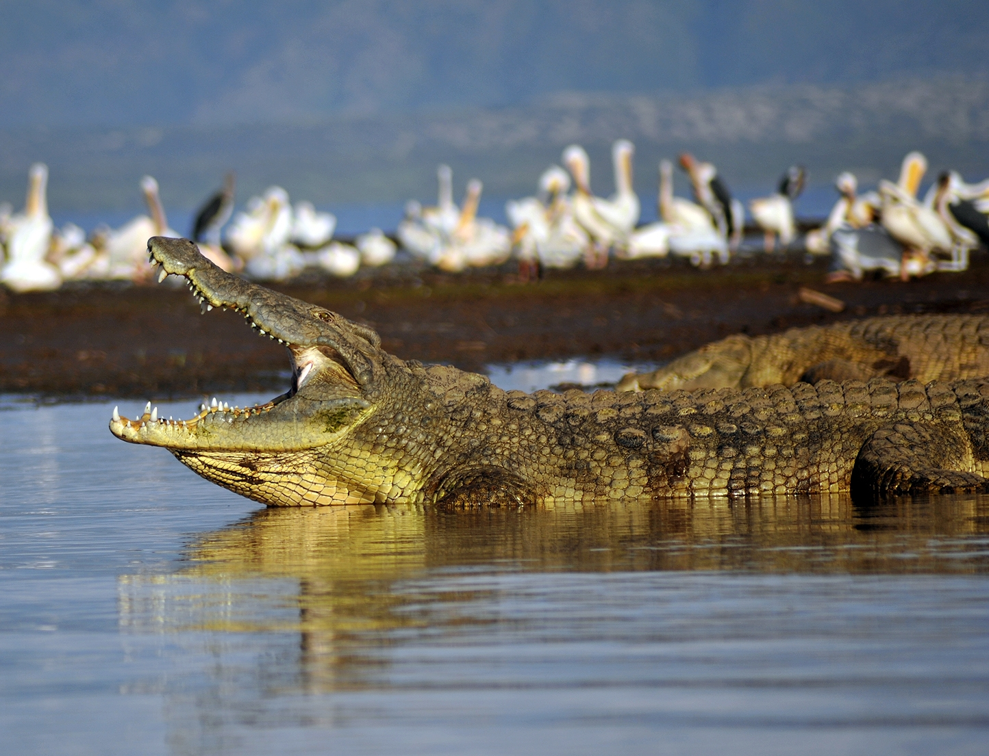 Crocodylus niloticus (Nile Crocodile) in Omo River Valley, Ethiopia